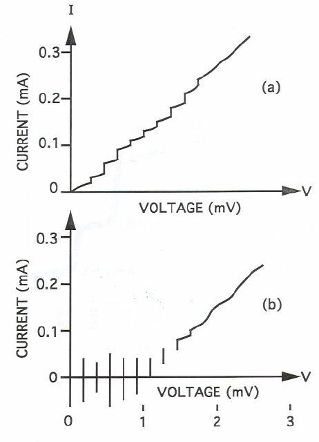 The I-V curves for two types of Josephson junctions